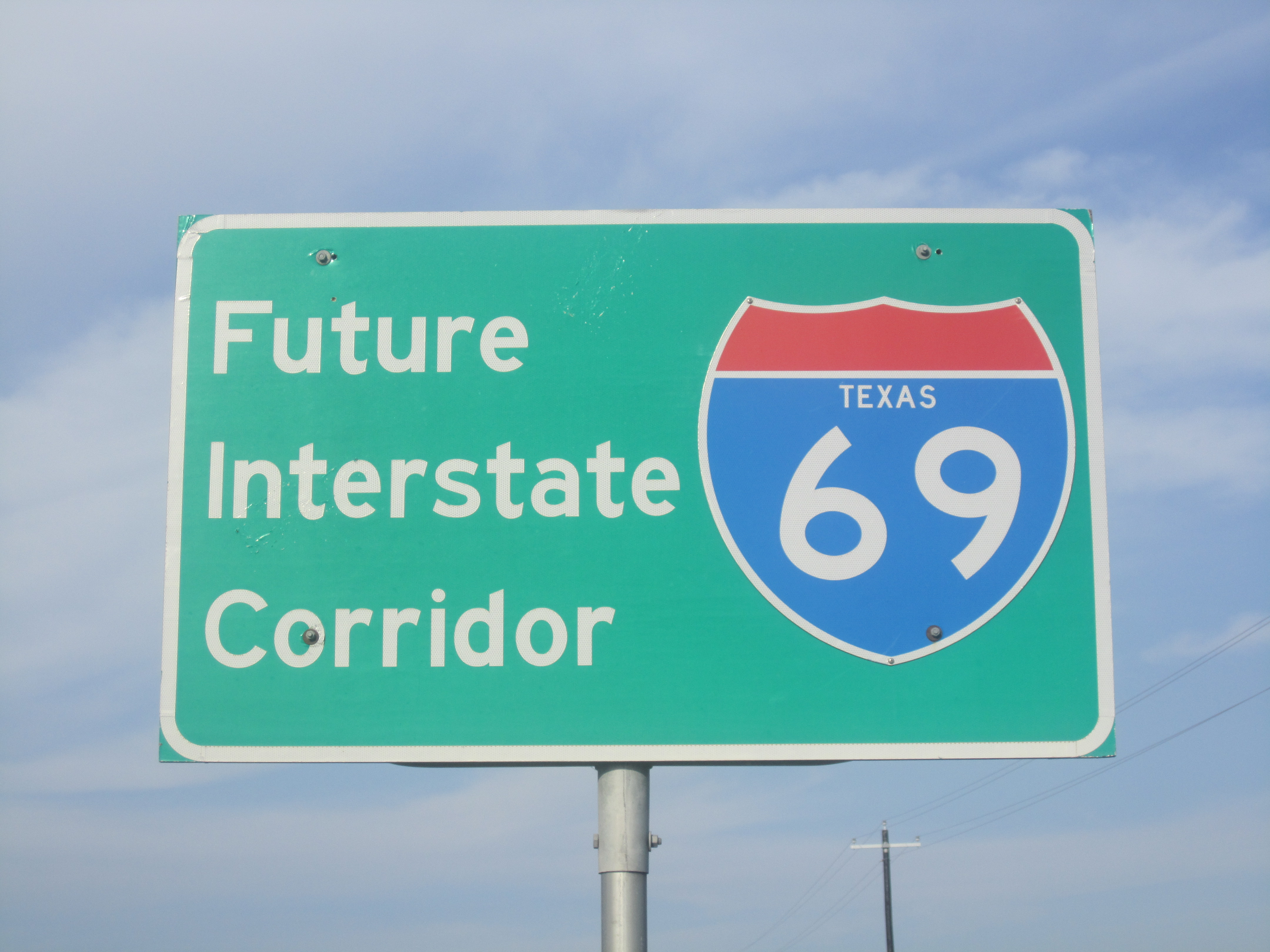 I took photo with Canon camera east of Laredo, TX.